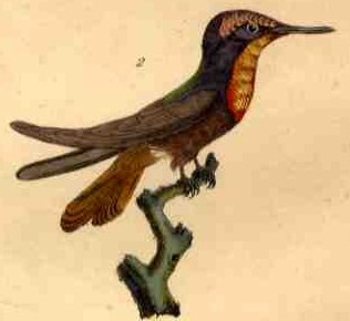 Ruby-topaz Hummingbird (Chrysolampis mosquitus)